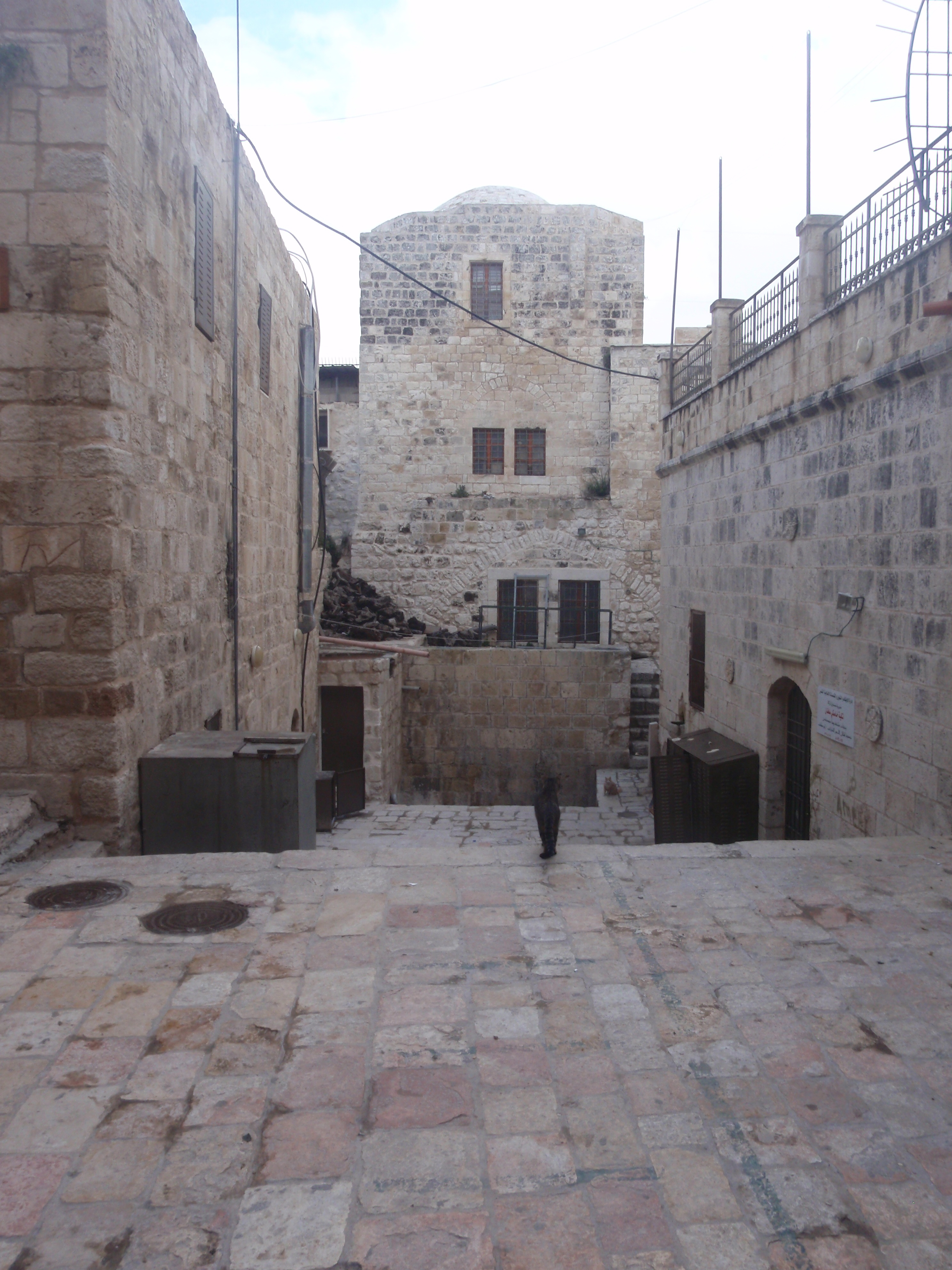 Courtyard, Hasseki Sultan Imaret